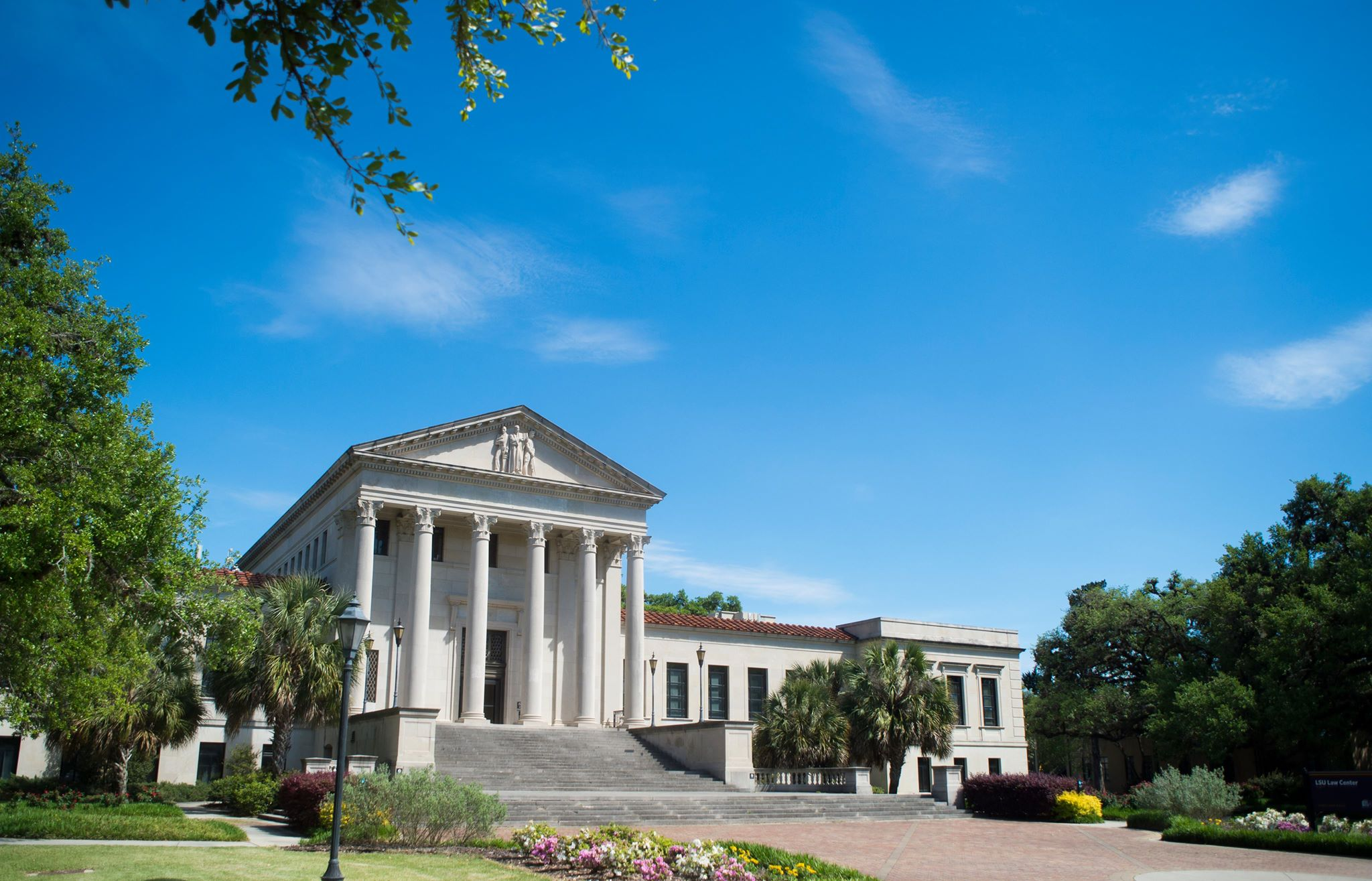 This picture was taken March 23, 2018 of the LSU Law Center